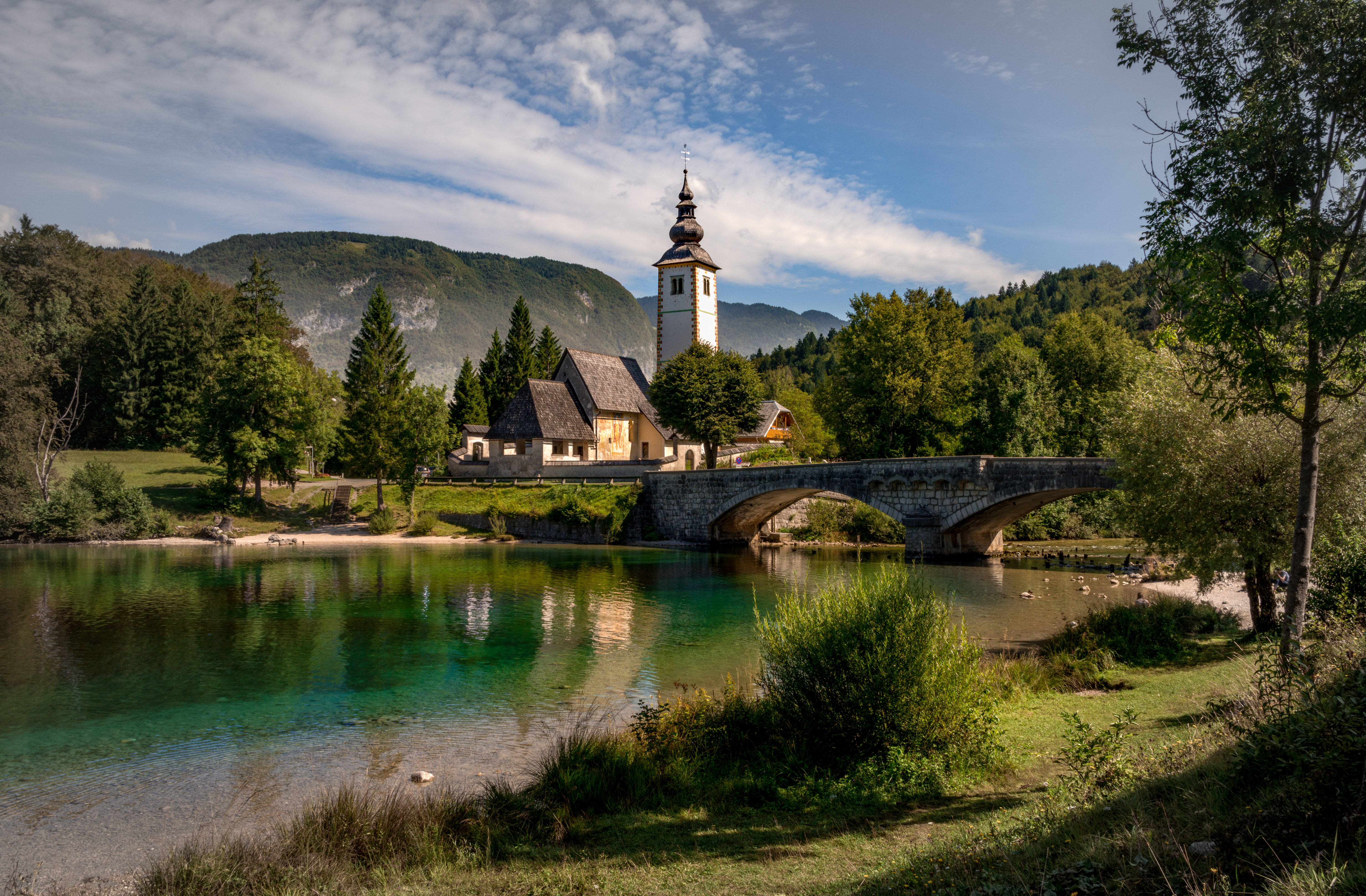 The village Ribčev Laz at the Lake Bohinj in Slovenia has developed into a tourist center and consists mainly of hotels. Luckily, the shore of the lake has remained largely untouched and offers some nice postcard views. The church, dedicated to St. John the Babtist, has Romanesque origins and is one of the most photographed churches in Slovenia.